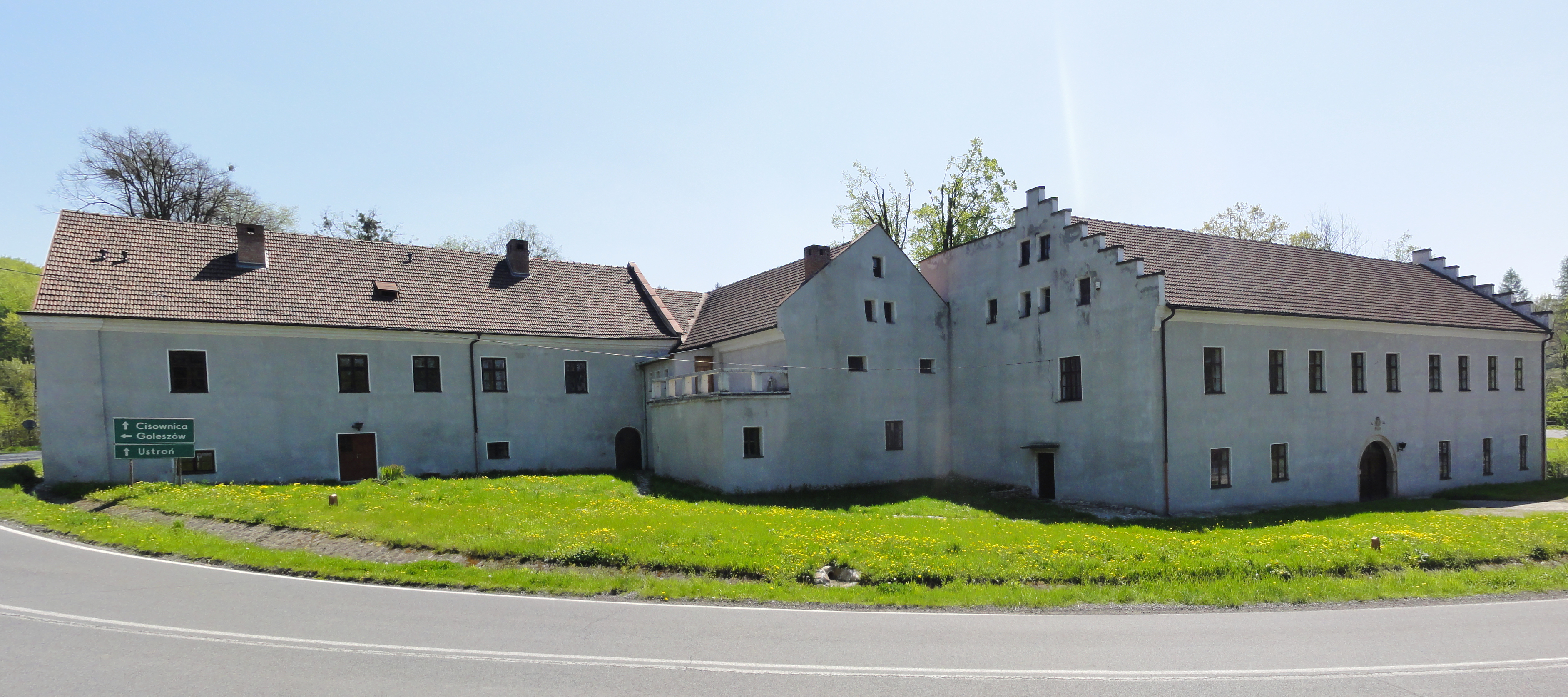 Castle in Dzięgielów